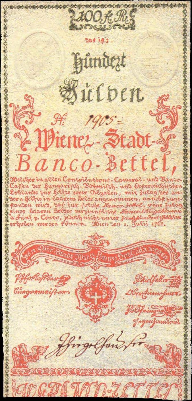 banknote for 100 Gulden Conventions-Münze issued by the Wiener Stadt-Banco (obverse)